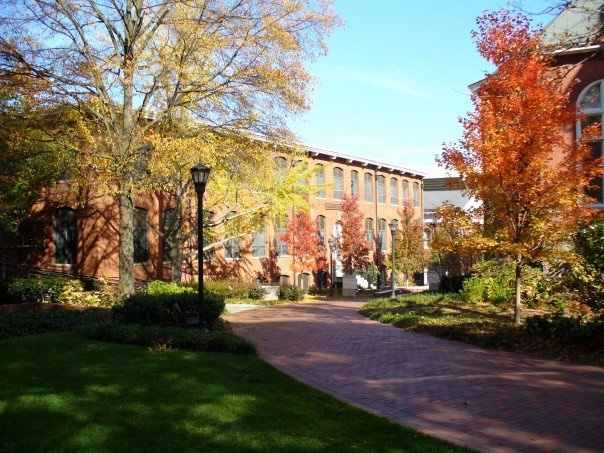 Uncle Heinie Way seen from West side of Tech Tower on the campus of Georgia Tech.